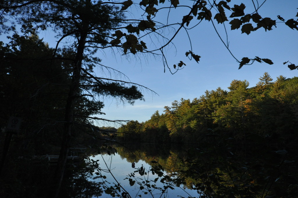 The Winnipesaukee River, between Silver Lake and Lake Winnisquam. It is in this area that the Lochmere Archeological District is located.